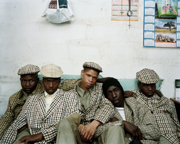 This is an image of music and dance from South Africa